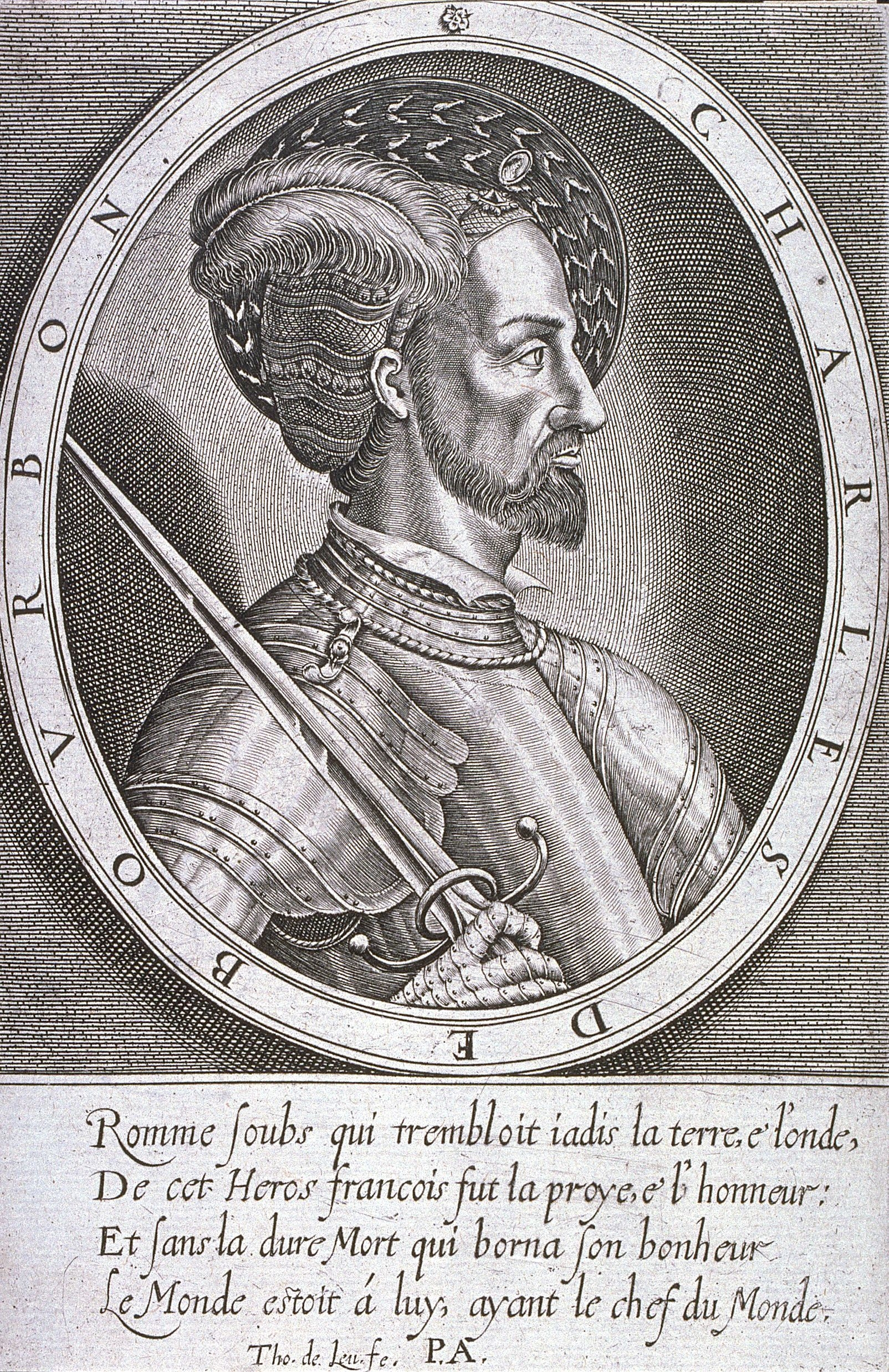 Portrait of Charles III of Bourbon-Montpensier, engraving